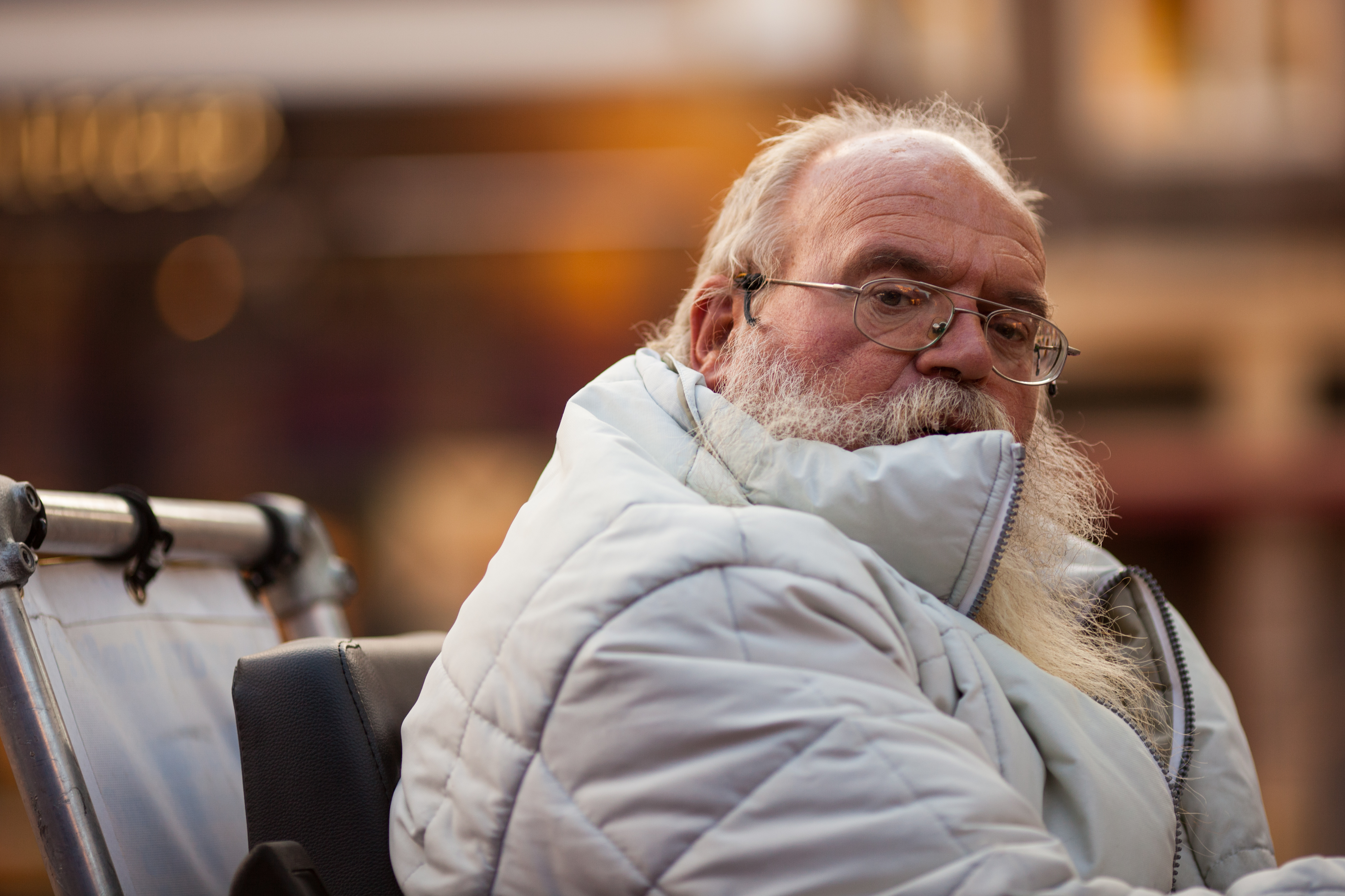 Arnol Kox on the Markt in Eindhoven